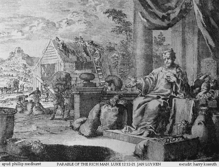 An etching by Jan Luyken illustrating Luke 12:12-21 in the Bowyer Bible, Bolton, England.